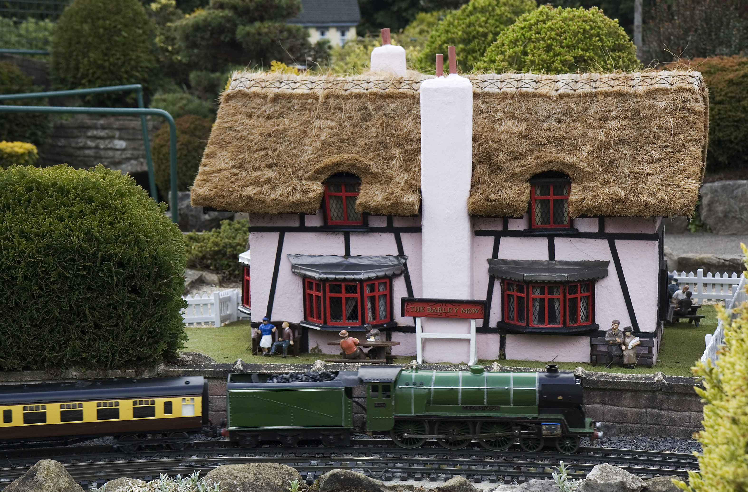 Thatched pub and train, Bekonscot